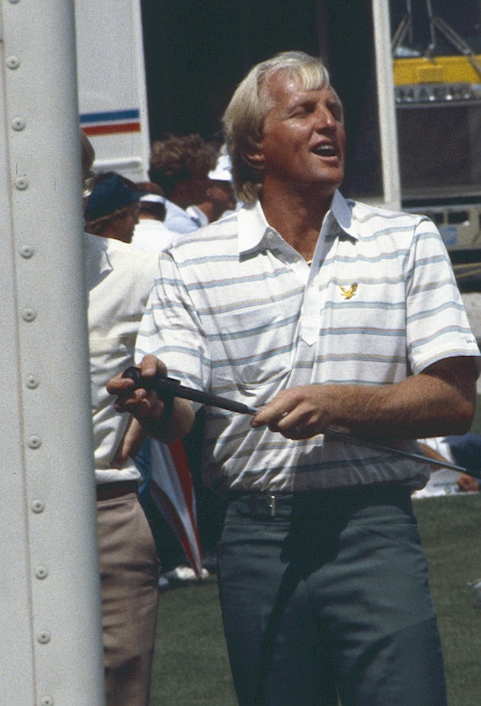 Greg Norman